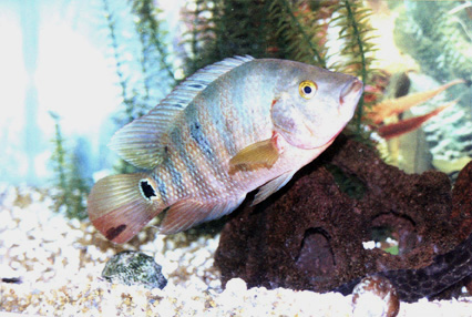 Photograph of a captive Mayan cichlid Cichlasoma urophthalmus. Color and light enhancements made to original image.